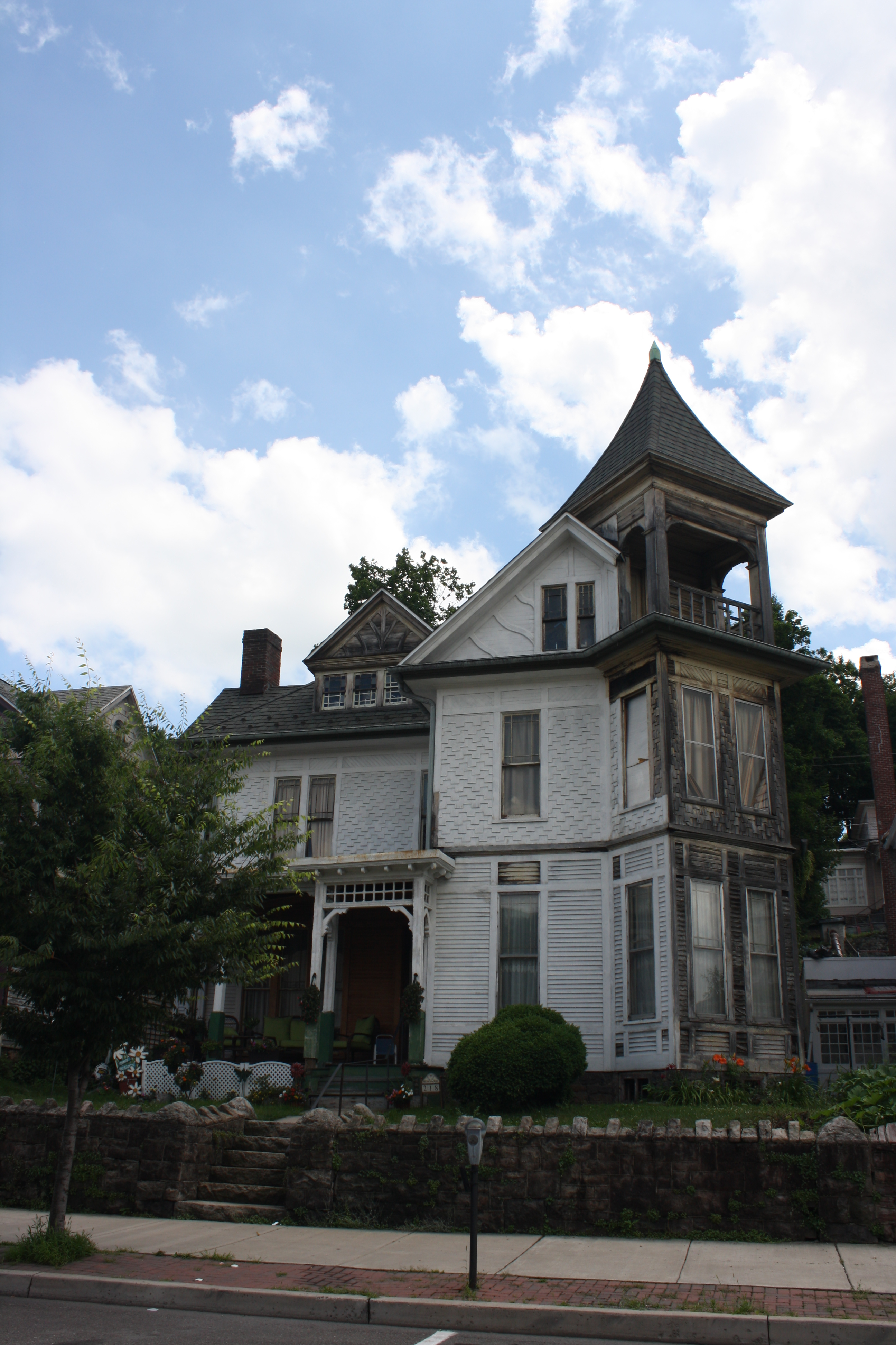 George Ormrod House is a historic home located at Tamaqua, Schuylkill County, Pennsylvania. It was built about 1870, and is a 2 1/2-story, irregular frame dwelling in the Late Victorian style.